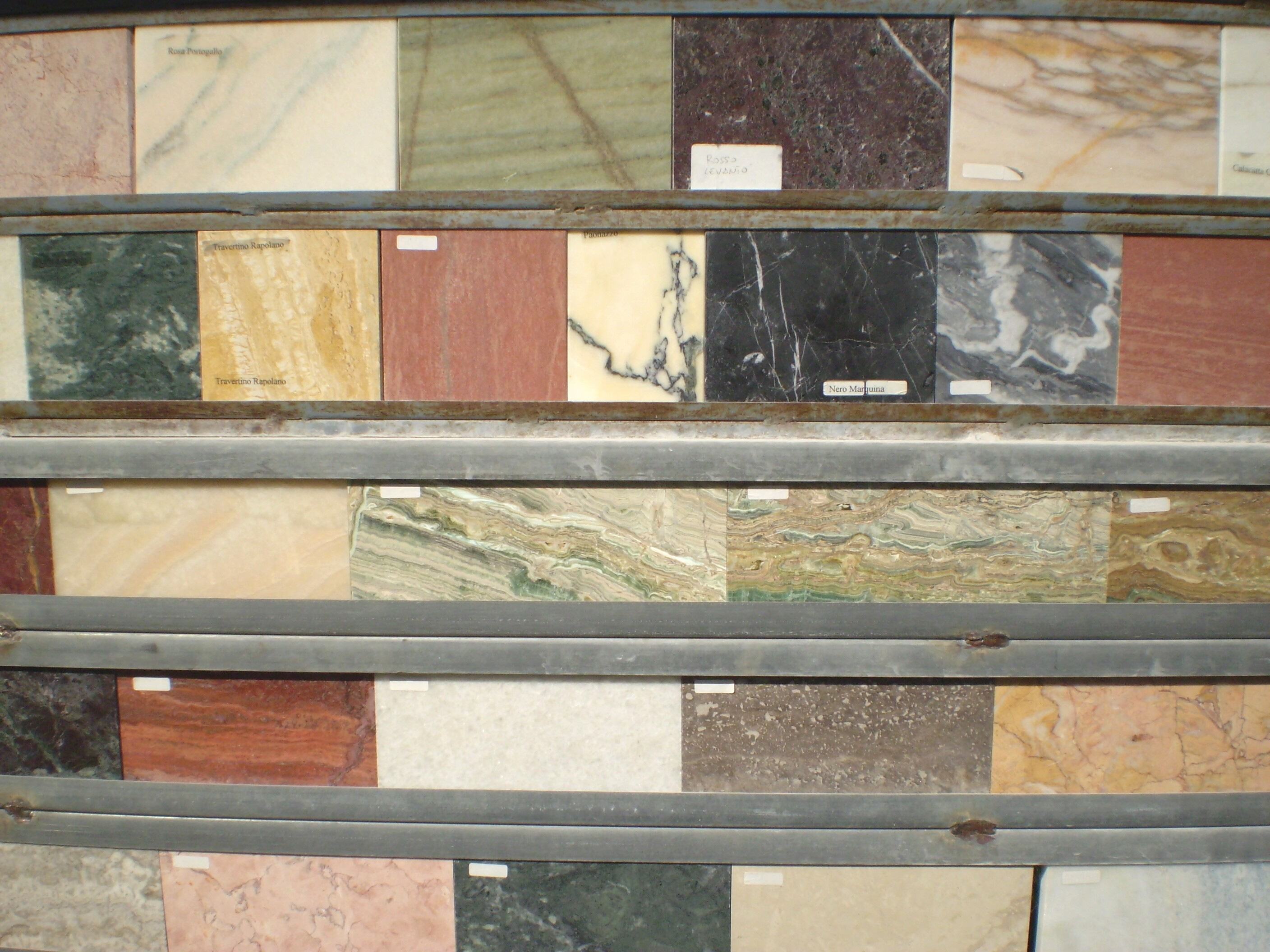 Types of dimension stones (marbles, limestones, serpentines and others), (Province Massa-Carrara, Italy. Museo di Fantiscritti)